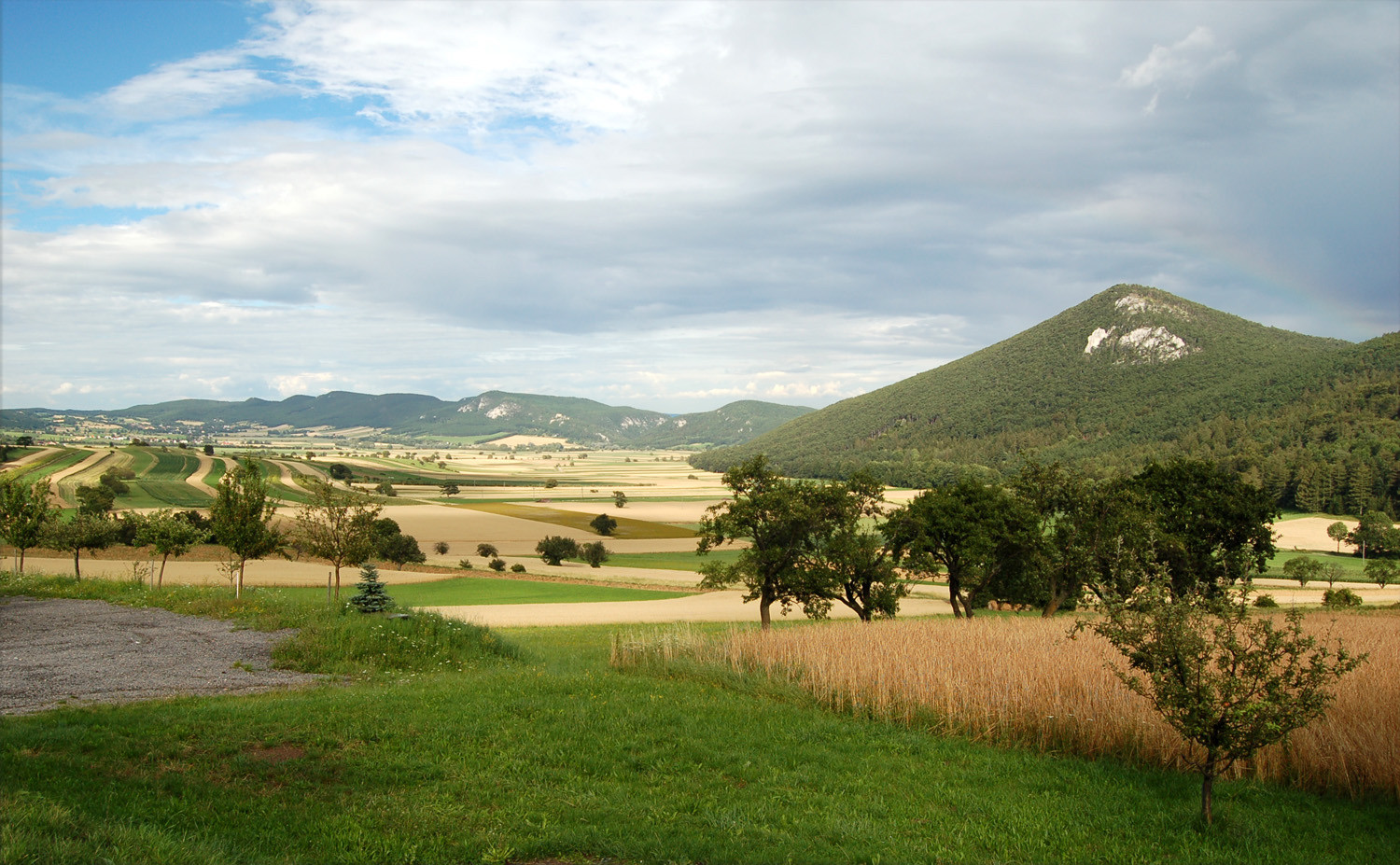 Fischauer Vorberge, a mountain range in Lower Austria. The bassin in the foreground is called Neue Welt (new world). Seen from Zweiersdorf below the mountain plateau Hohe Wand.